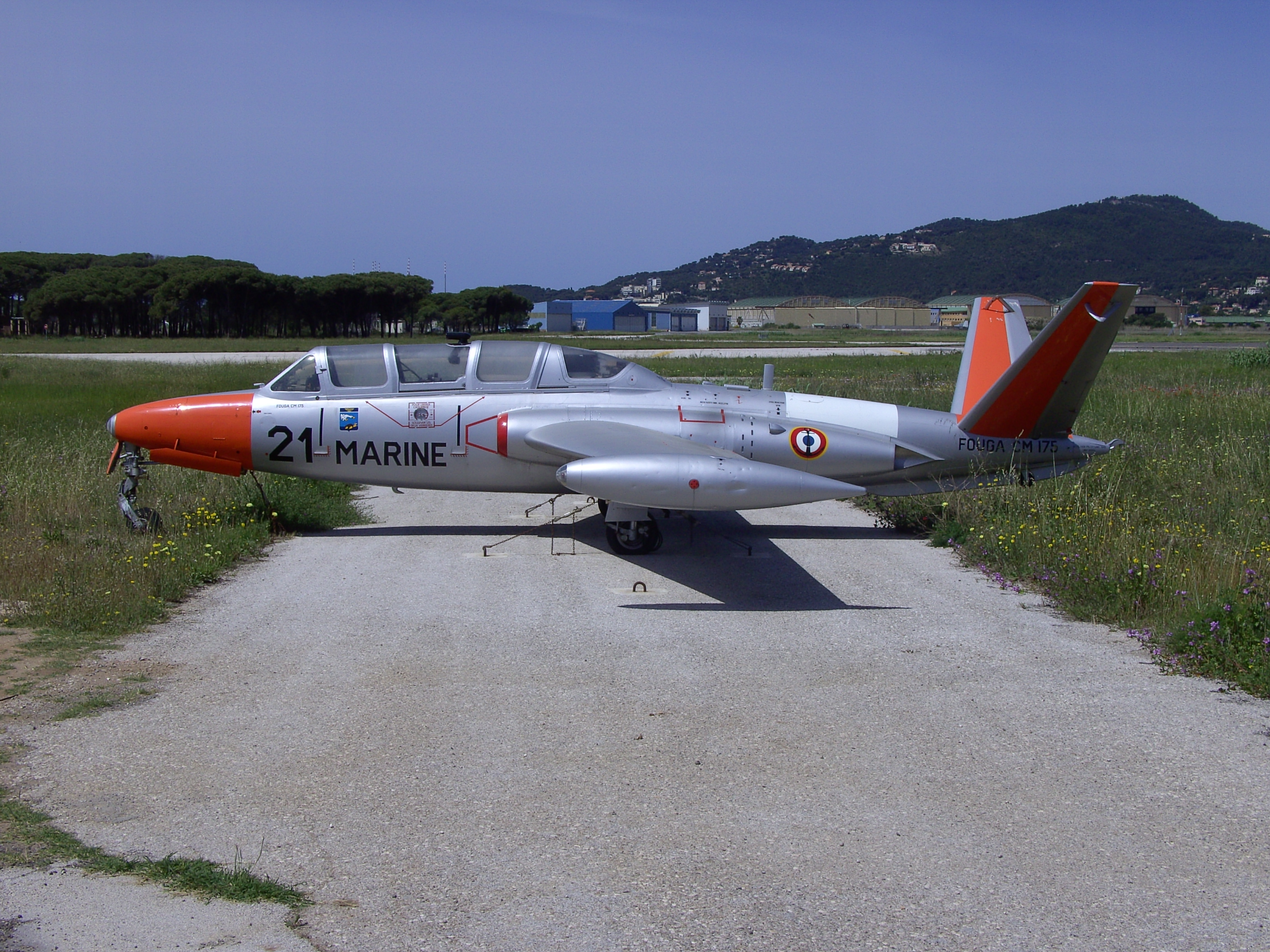 Fouga CM.175 Zéphyr carrier-capable jet trainer aircraft of the French Naval Aviation force, at Toulon-Hyères Airport, May 2012.